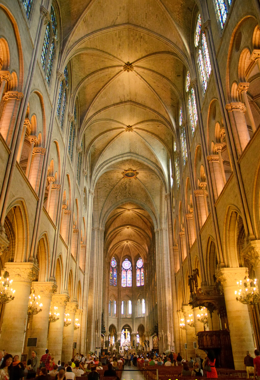 The interior, Notre Dame de Paris, 2012